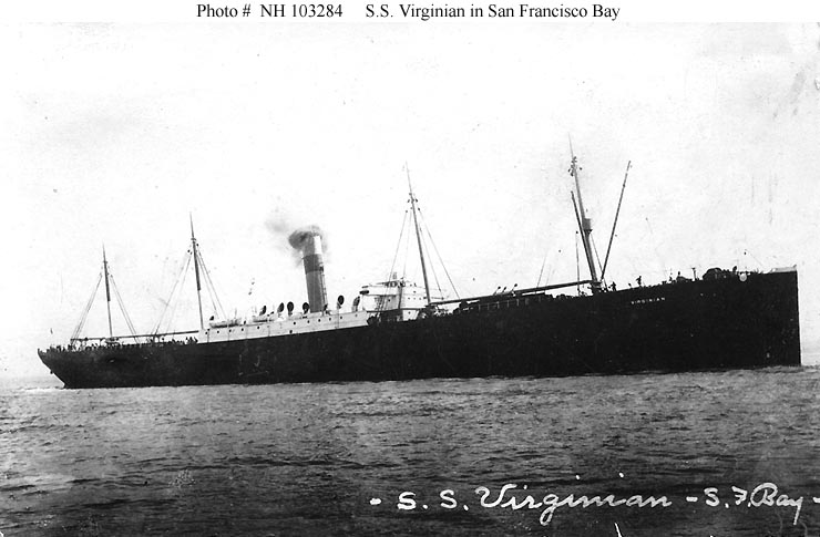 Cargo ship SS Virginian in San Francisco Bay prior to her 1919 United States Navy service as troop transport USS Virginian (ID-3920)